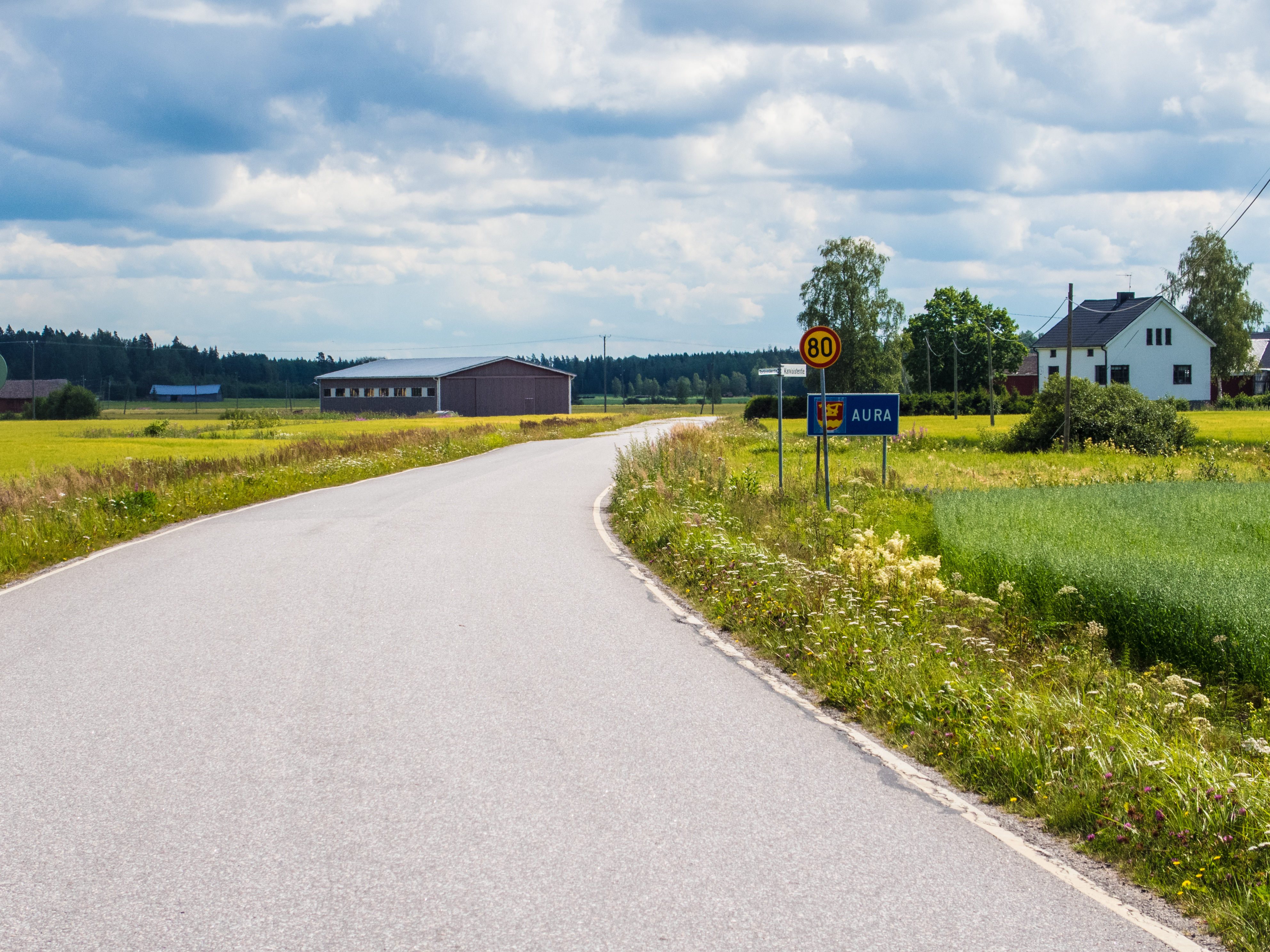 Connecting road 2042 runs from Tortinmäki, Turku, to Kuovi, Aura, Finland.